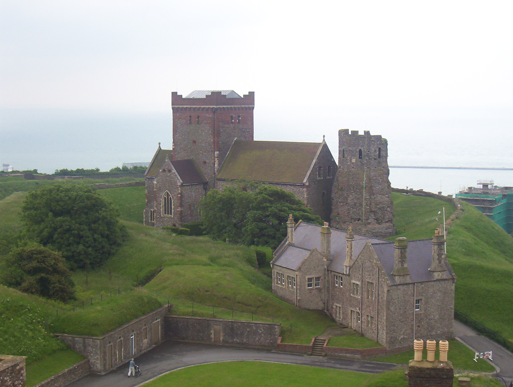 St. Mary in Castro church, Dover Castle, Kent, UK